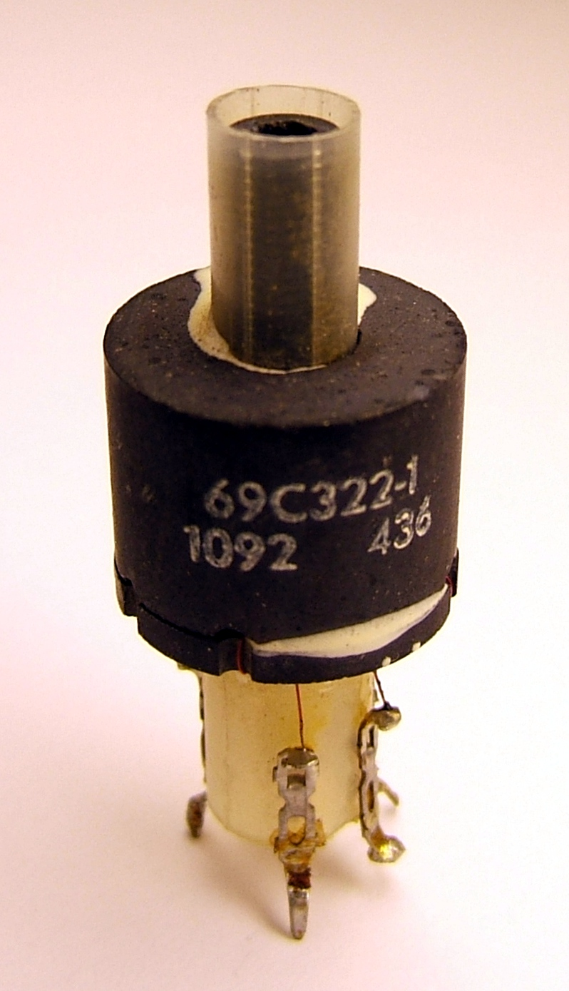 An adjustable inductor used in radio circuits. About 4.2 cm (1 5/8 inches) tall. It consists of a wire wound around a plastic form, with a threaded ferrite slug down the center (visible at top). The slug can be turned with a hex wrench to move it into or out of the coil. Moving it further into the coil increases the permeability, increasing the magnetic field and thus the inductance. Another part of the ferrite core (dark cylinder), called a "pot core", surrounds the wire winding. This serves to confine the magnetic field lines, so they don't induce currents in other nearby components, causing electromagnetic interference. It is probably used in bandpass filters in the intermediate frequency (IF) section of radio receivers to filter out interference from radio stations near in frequency to the desired station.